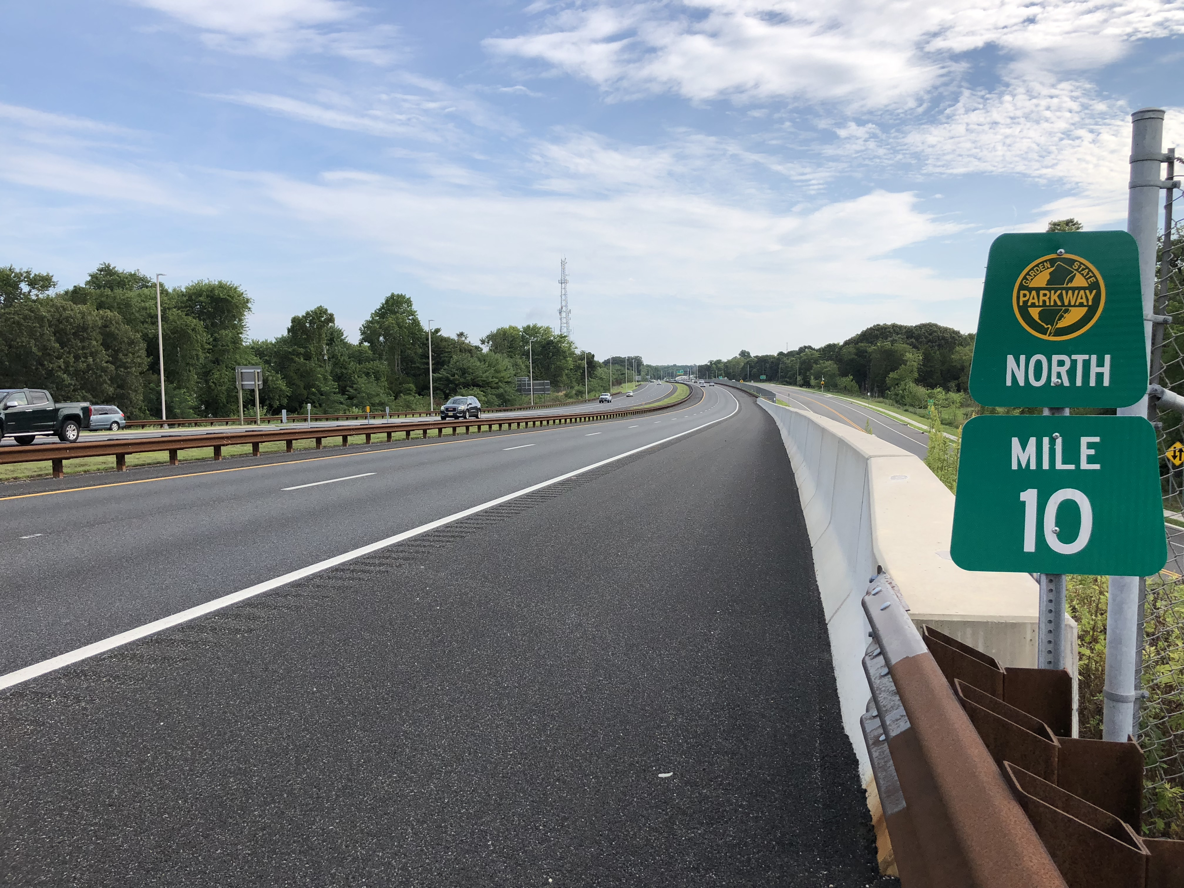 View north along New Jersey State Route 444 (Garden State Parkway) just north of Exit 10 in Middle Township, Cape May County, New Jersey